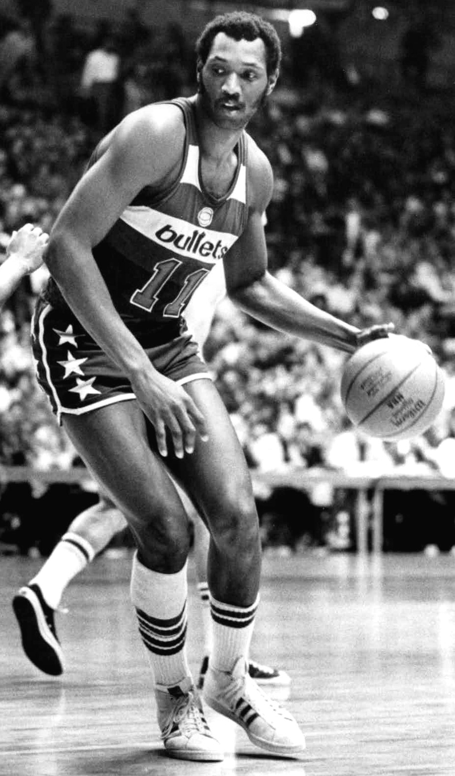 Professional basketball player Elvin Hayes